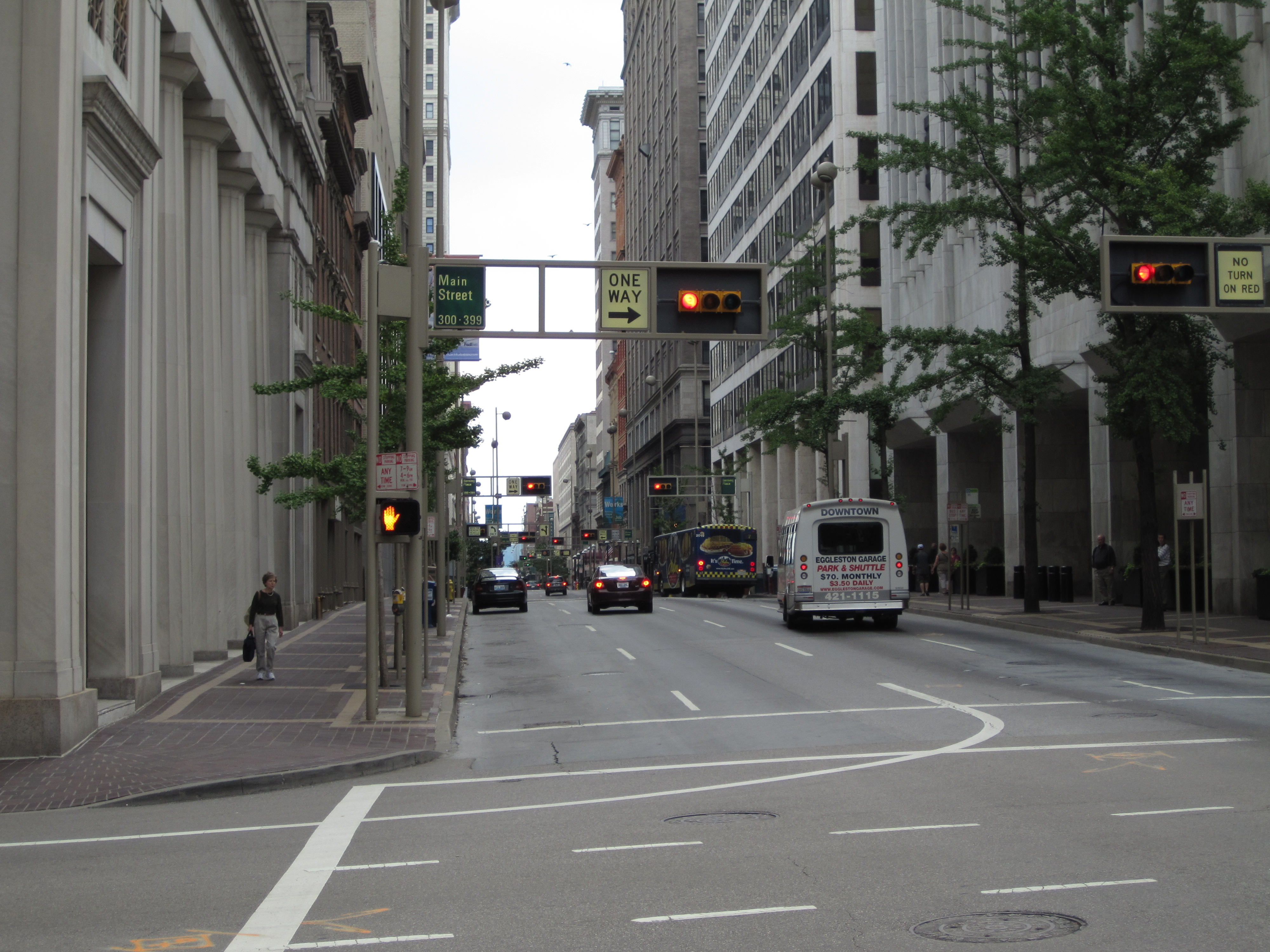 Example of gantry-mounted traffic signals in downtown Cincinnati, Ohio.